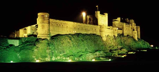 Bamburgh Castle at Night. Bamburgh Castle looks magnificent when floodlit. The floodlighting for this castle won an award.